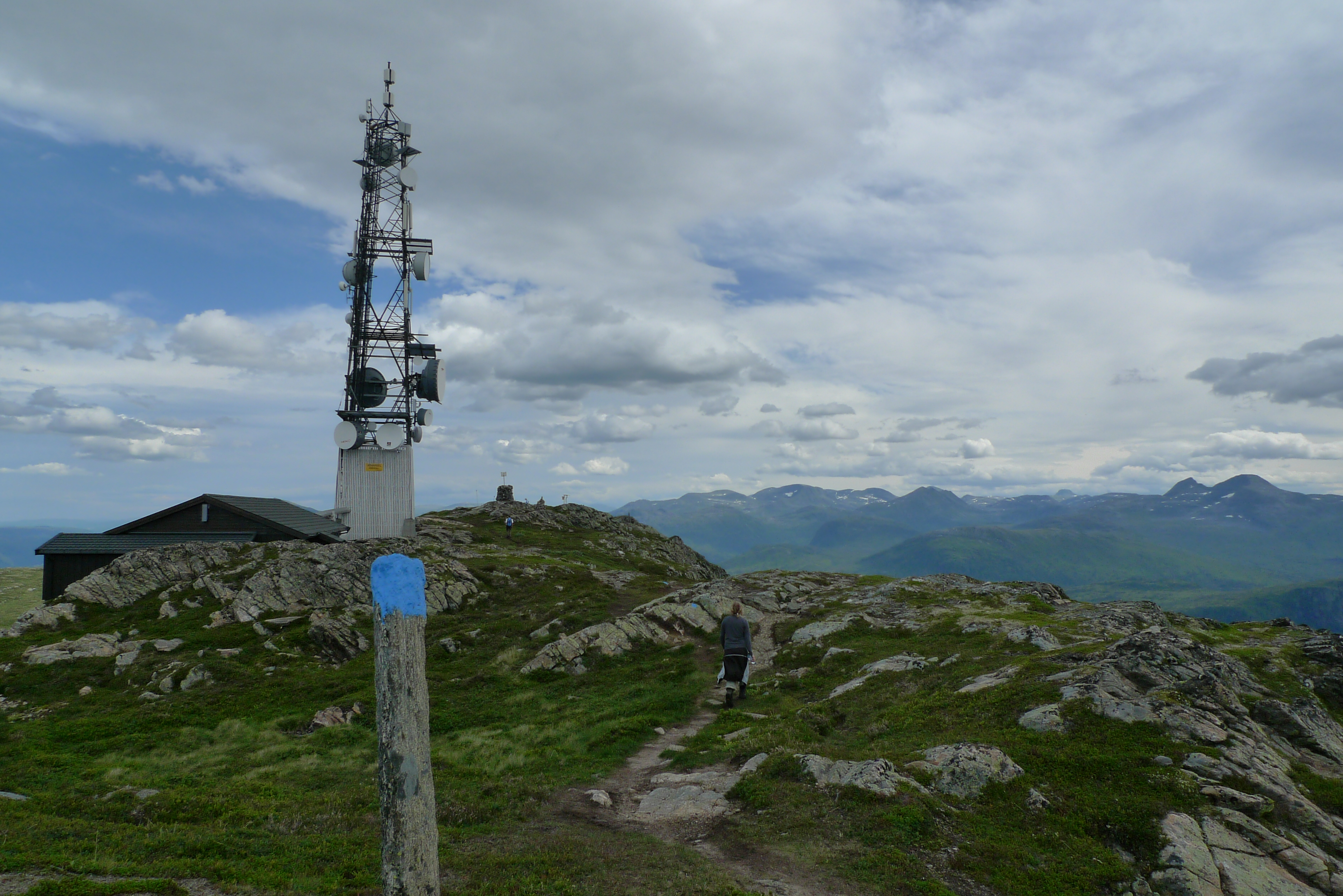 Toppen av Strengen.